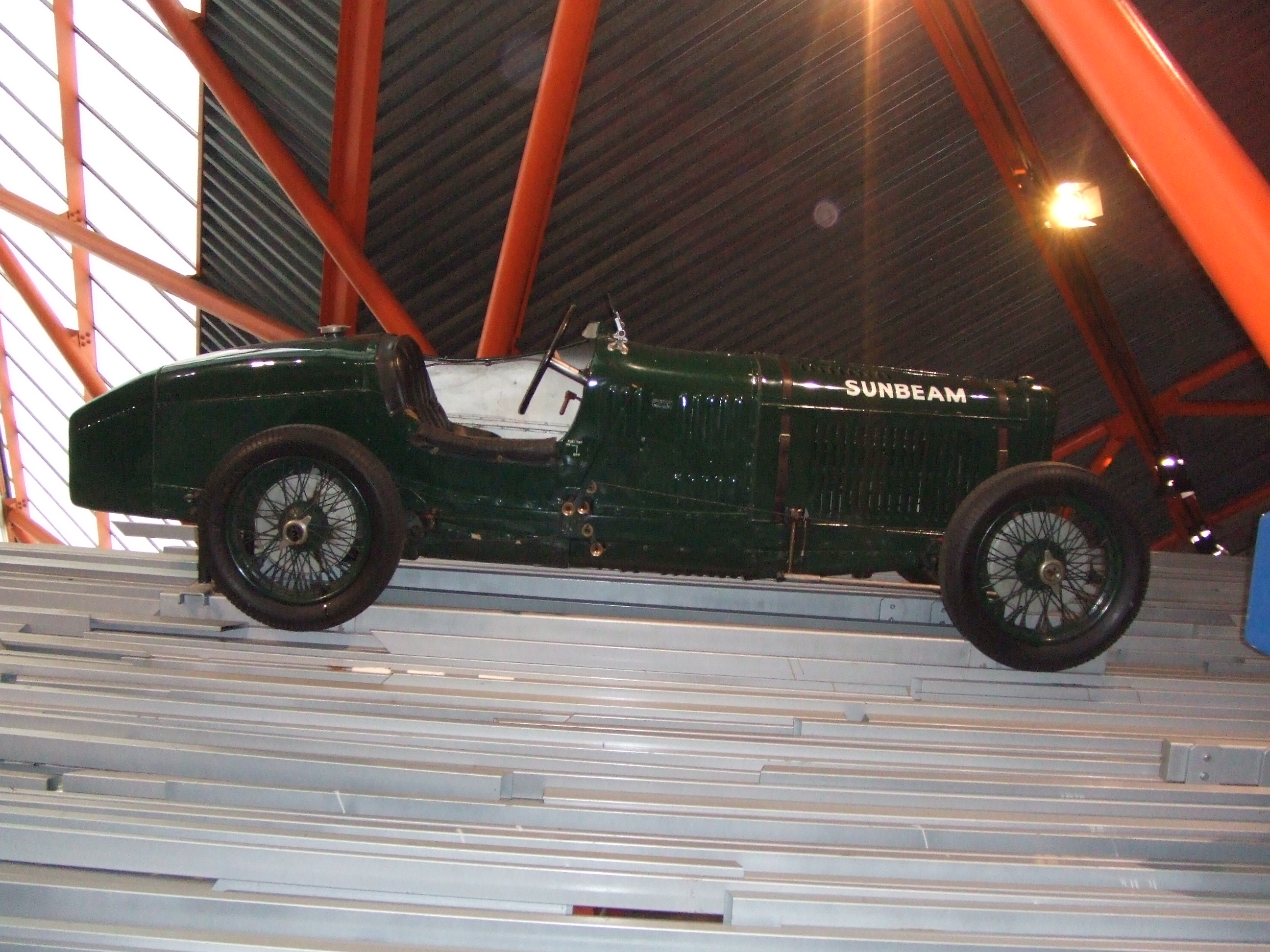 1924 Sunbeam at the Beaulieu Motor Museum, 10/06.